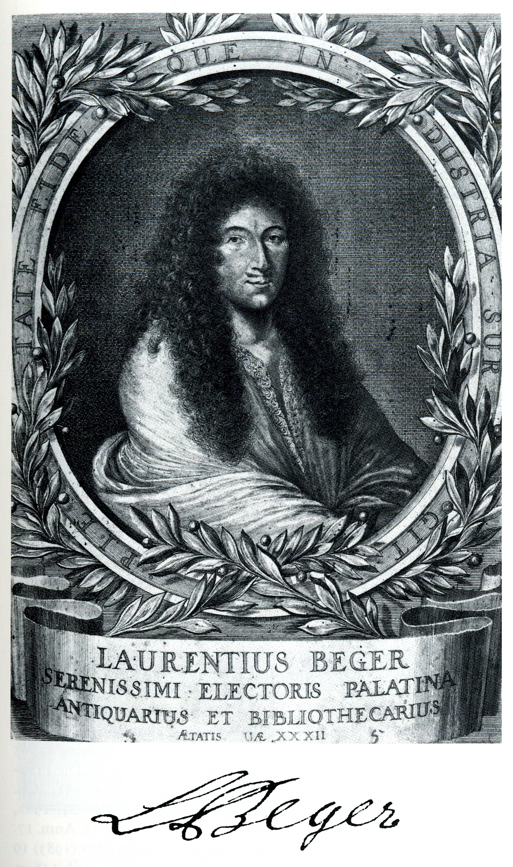 Lorenz Beger (1653-1705), made by Johann Ulrich Kraus in 1685